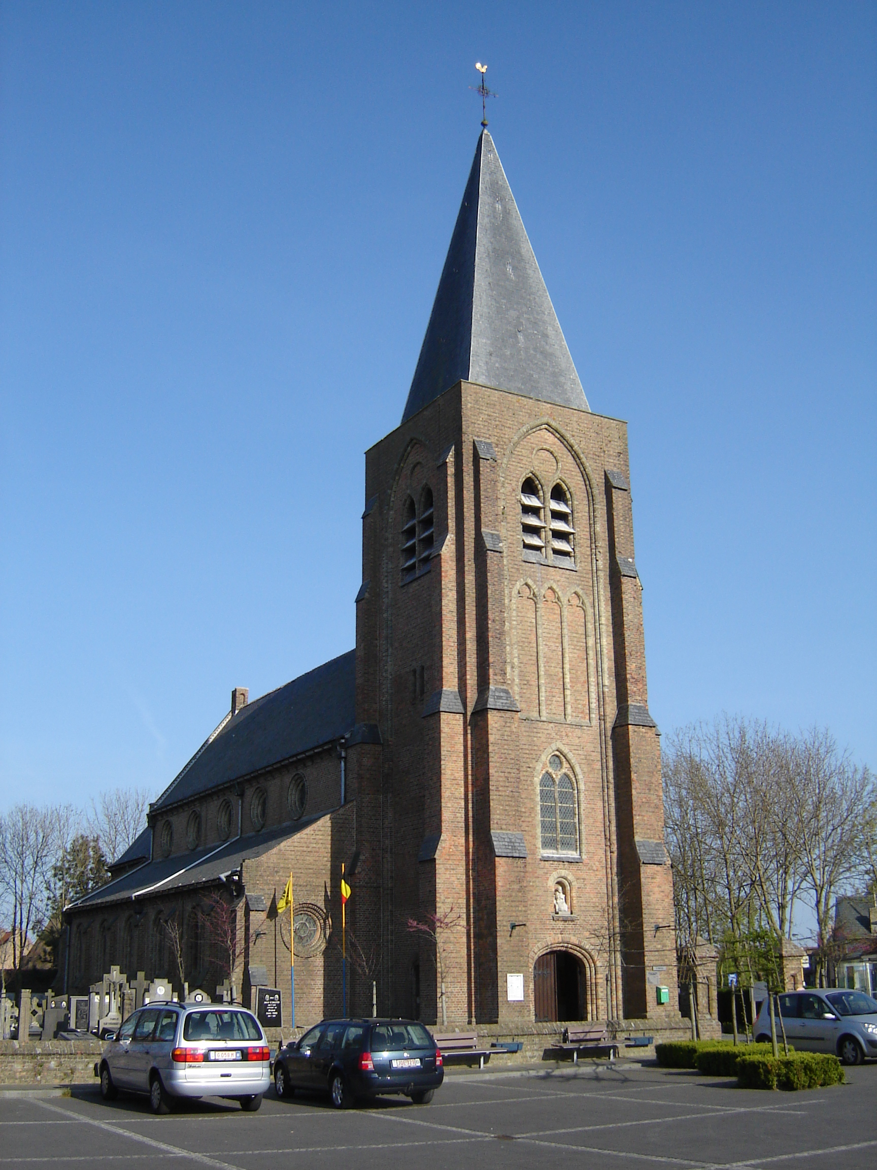 Church of Saint Peter in Sint-Pieterskapelle, Middelkerke, West Flanders, Belgium